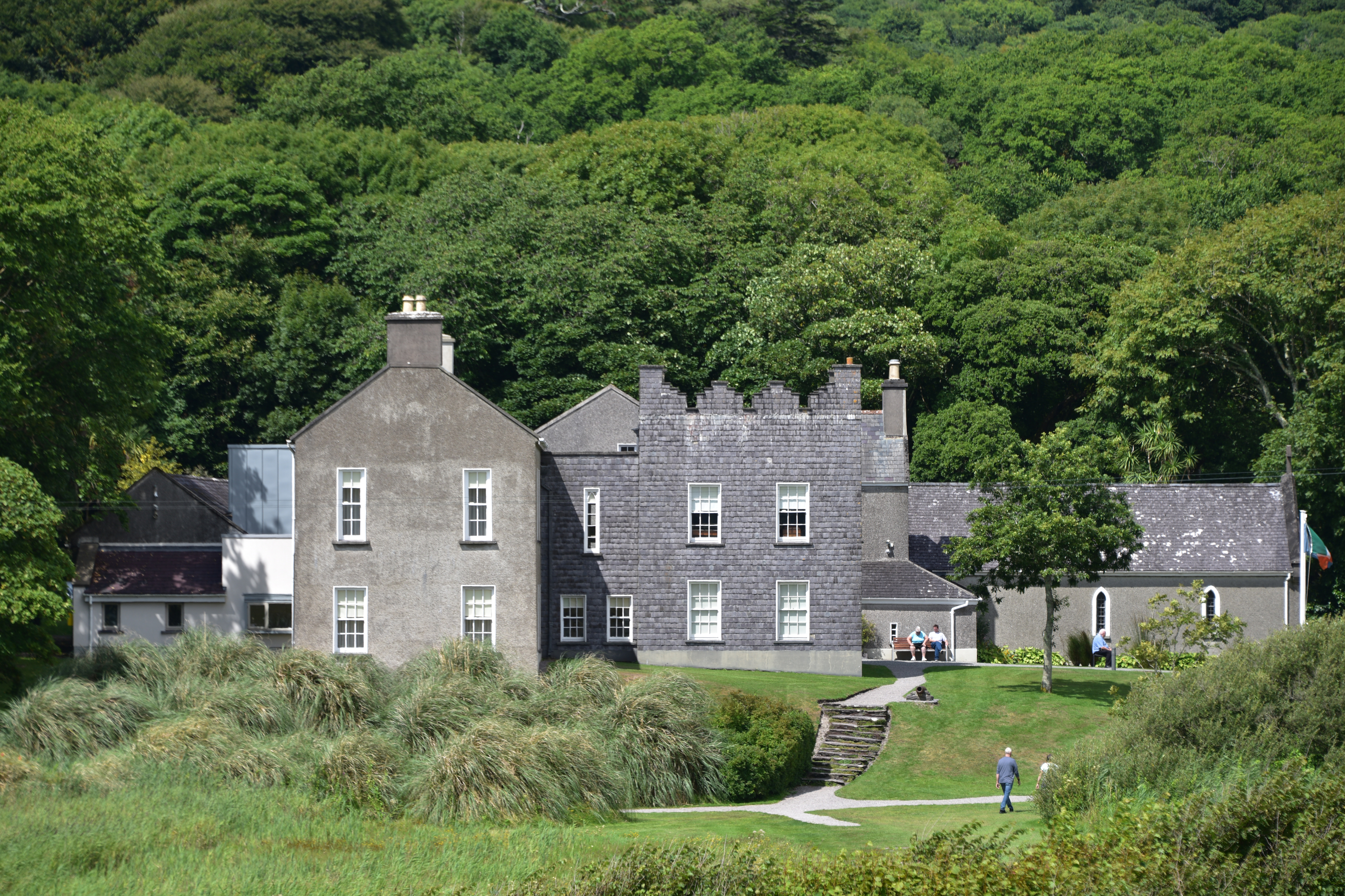 This country house was once owned by Irish independence advocate, Daniel O'Connell.